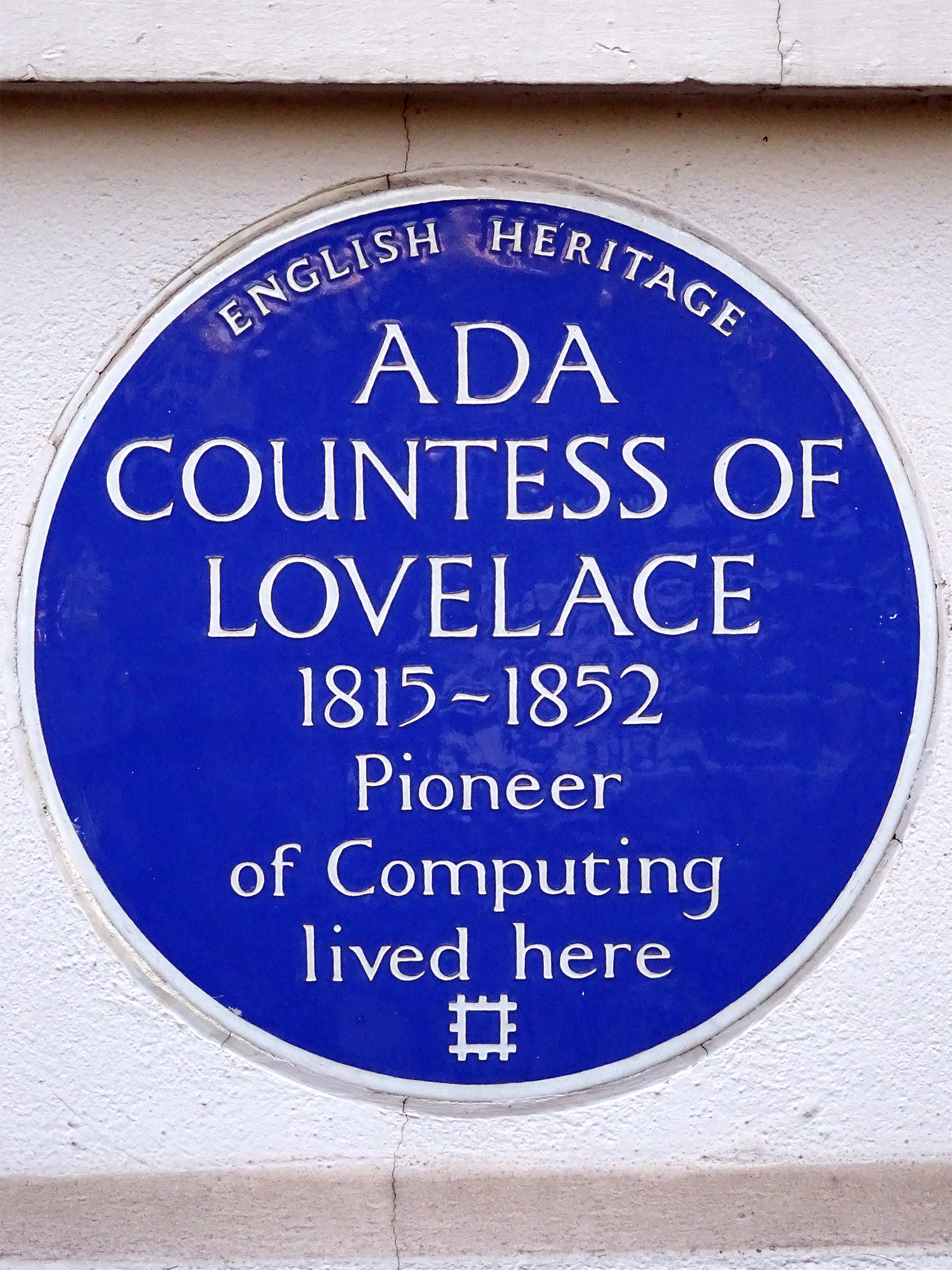 Blue plaque erected in 1992 by English Heritage at 12 St James's Square, St James's, London SW1Y 4RB, City of Westminster